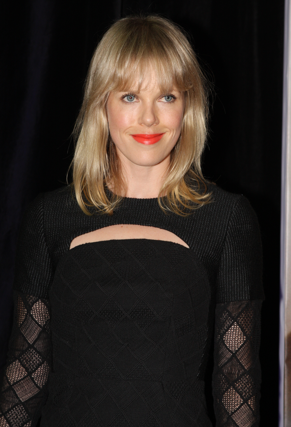 Alyssa McClelland at Star Trek Into Darkness Australian premiere